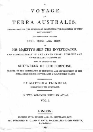 Title page of Matthew Flinders (1814) A Voyage to Terra Australis: Undertaken for the Purpose of Completing the Discovery of that Vast Country, and Prosecuted in the years 1801, 1802 and 1803, in His Majesty's Ship the Investigator, and Subsequently in the Armed Vessel Porpoise and Cumberland Schooner: With an Account of the Shipwreck of the Porpoise, Arrival of the Cumberland at Mauritius, and Imprisonment of the Commander during Six Years and a Half in that Island, London: Printed by W. Bulmer and Co., Cleveland-Row, and published by G. and W. Nicol, booksellers to His Majesty, Pall-Mall OCLC: 1931791.